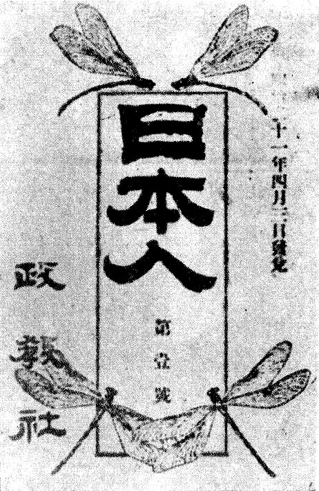 "Nihonjin"（Japanese) was a Japanese political magazine published from April 1888 until December 1901.